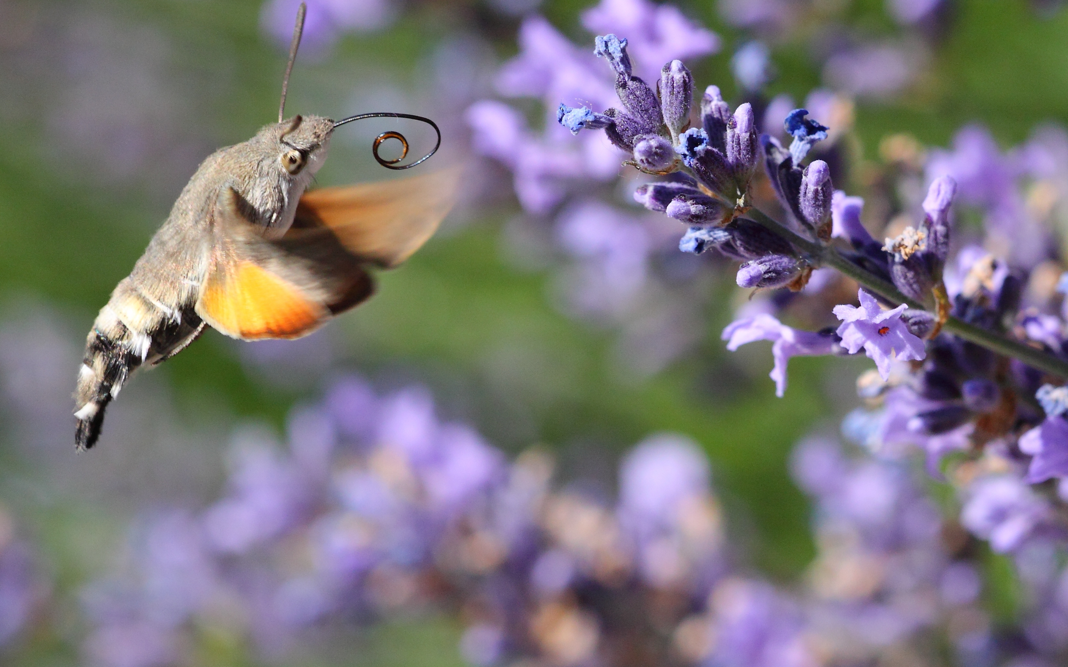 Hummingbird hawk-moth (Macroglossum stellatarum) in flight near lavender